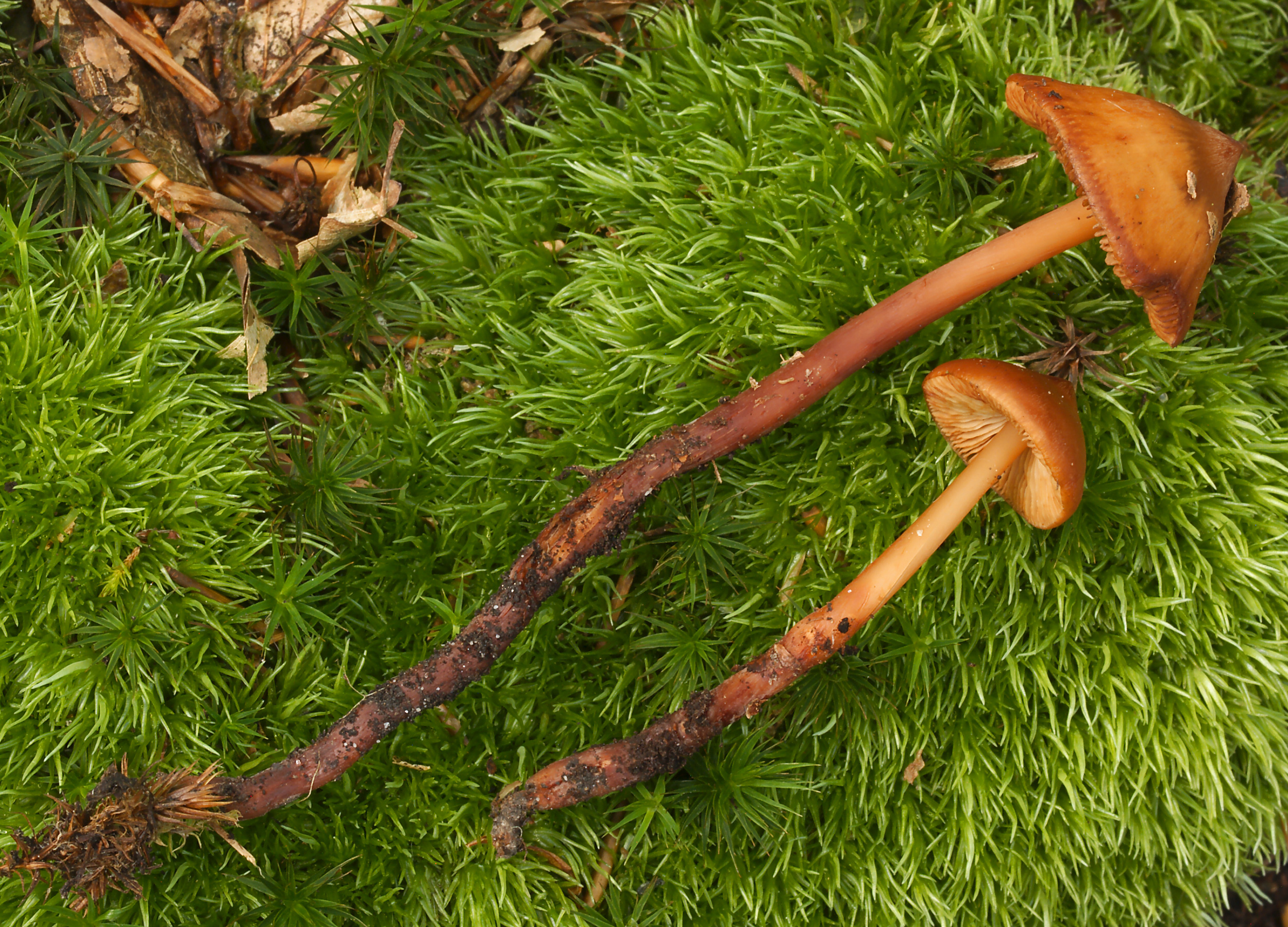 Red Ocher Rootshank (Phaeocollybia christinae)